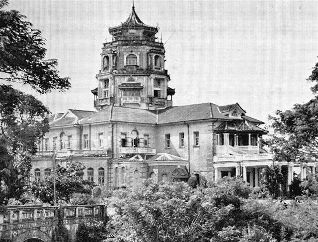 Lim Chin Tsong palace aka Kokkine palace, Rangoon, Burma.